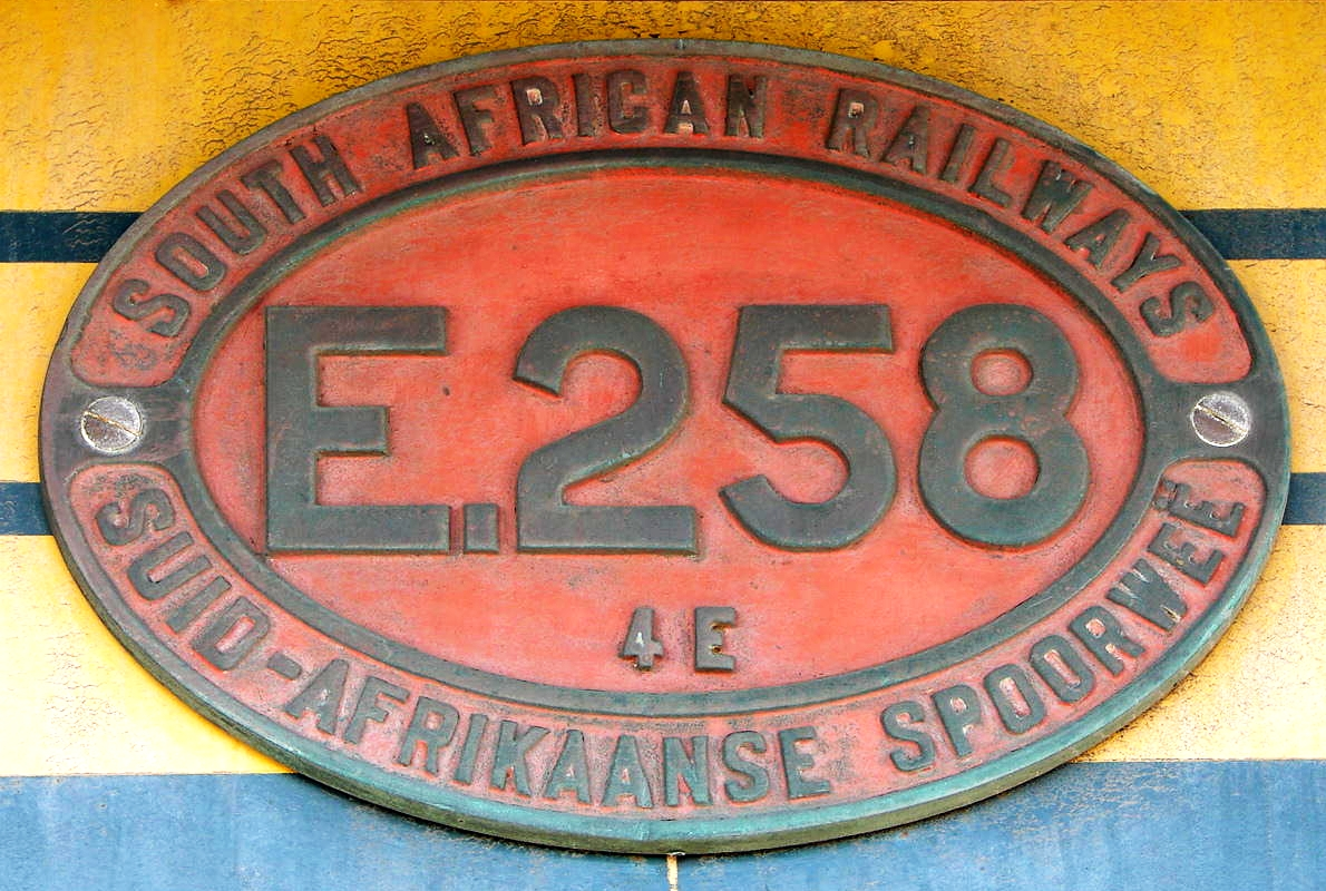 SAR Class 4E E258 number plateBuilder's Number: NBL 26898Location: Bellville, Cape Town